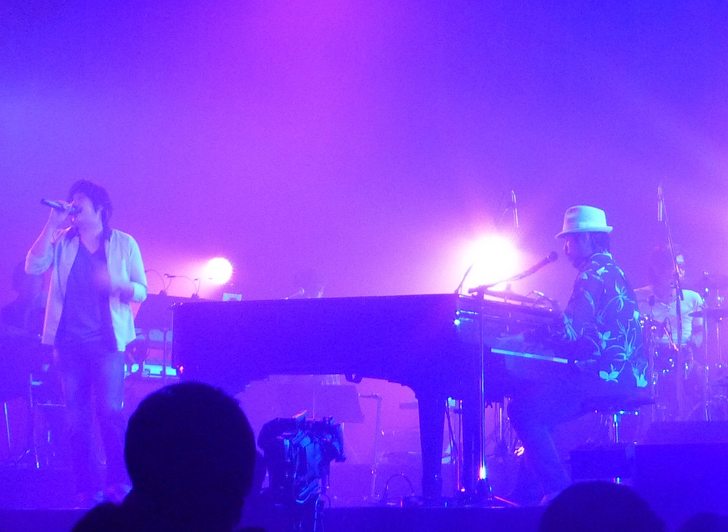 J-pop group "Sukima Switch" (at "Countdown Japan" music festival.) Personality rights warning Although this work is freely licensed or in the public domain, the person(s) shown may have rights that legally restrict certain re-uses unless those depicted consent to such uses. In these cases, a model release or other evidence of consent could protect you from infringement claims.